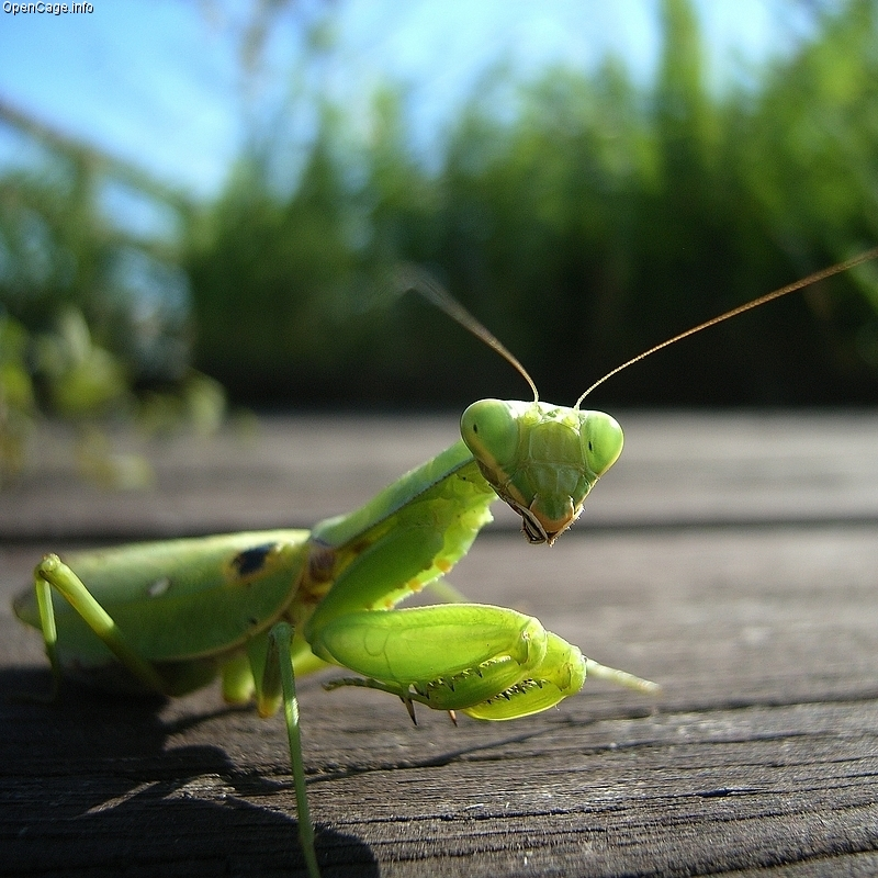 ハラビロカマキリ Praying mantis Species Hierodula patellifera Familia Mantidae Location 神戸市中央区 布引ハーブ園 Copyright OpenCage